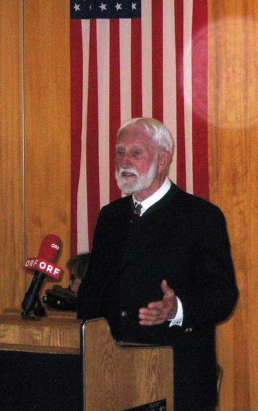 Ernst Florian Winter giving a presentation